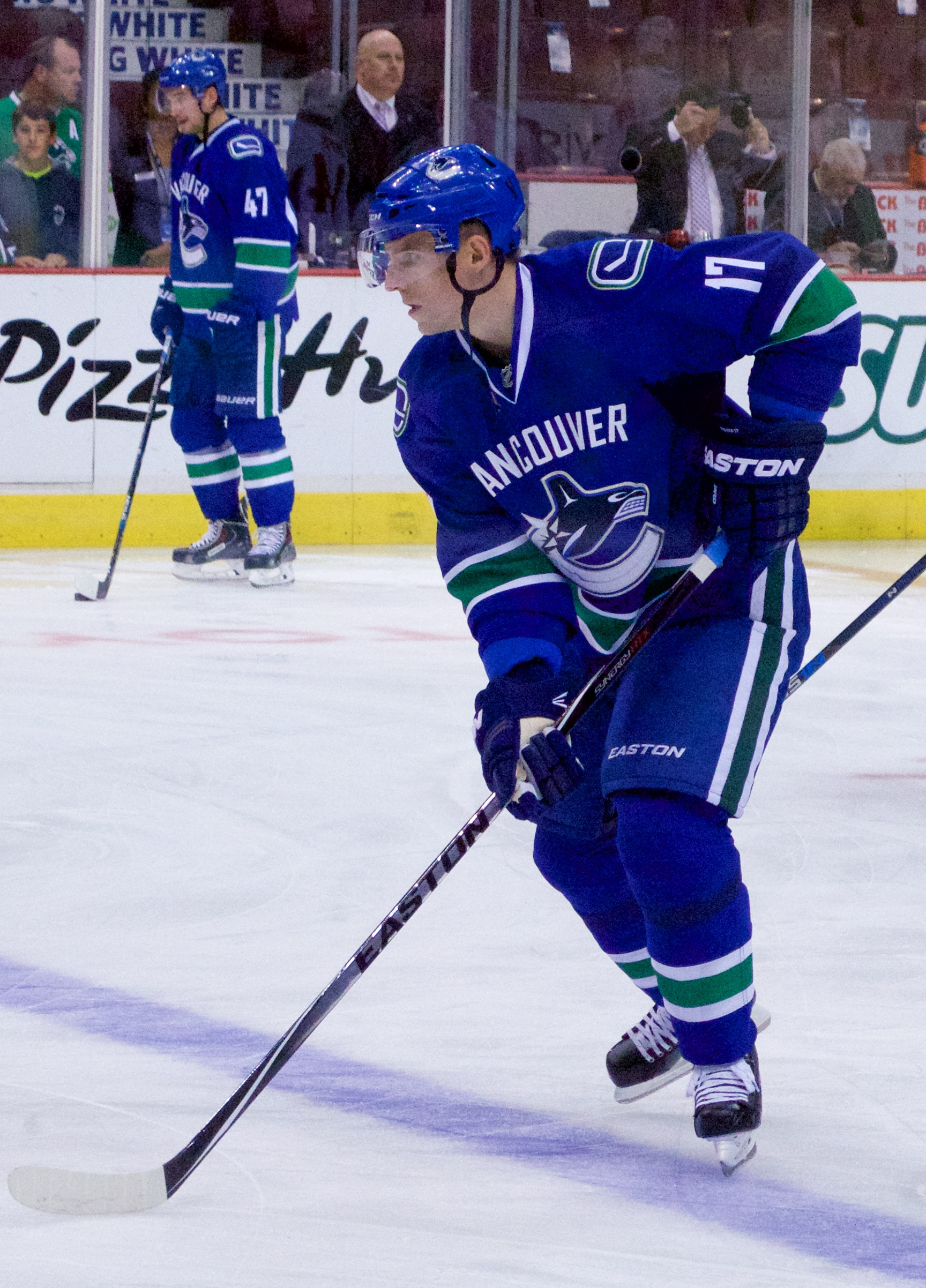 Vancouver Canucks forward Radim Vrbata during pre-game warmup on October 22, 2015.